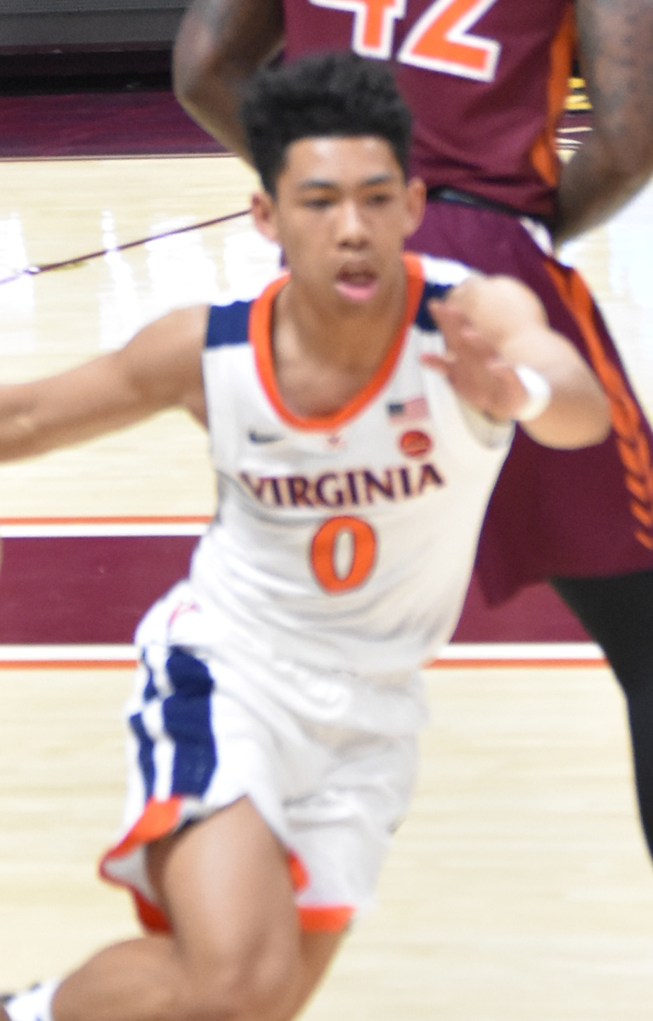 Wabissa Bede works the ball for the Hokies against Kihei Clark